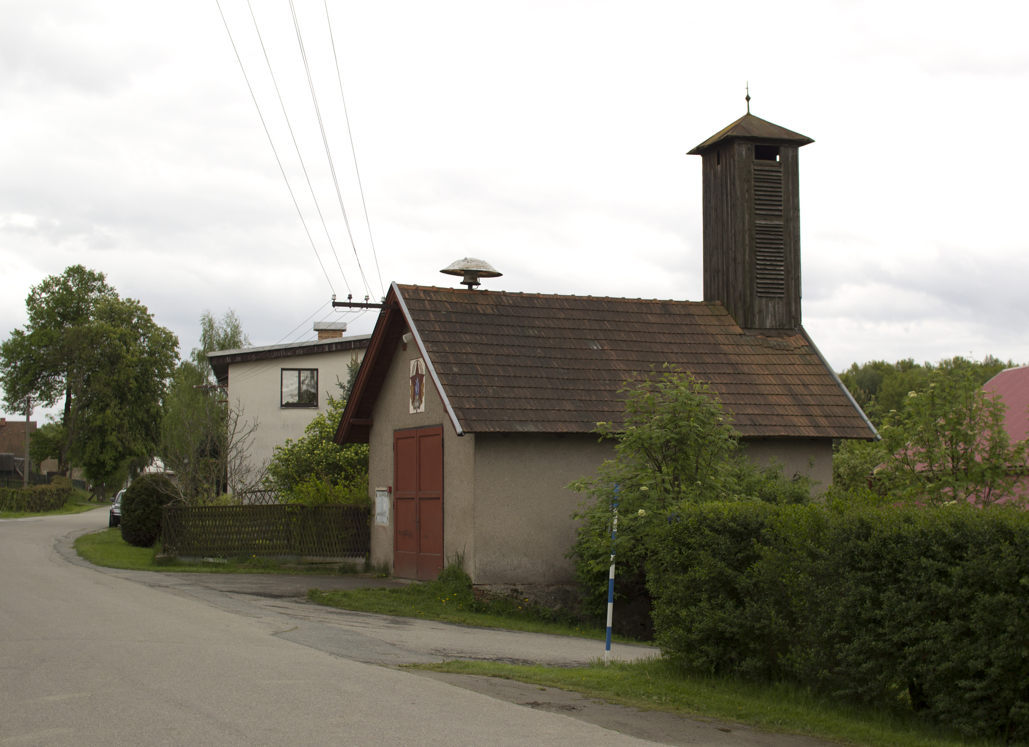 Dlouhá Ves, Havlíčkův Brod Distrct, Vysočina Region, Czech Republic